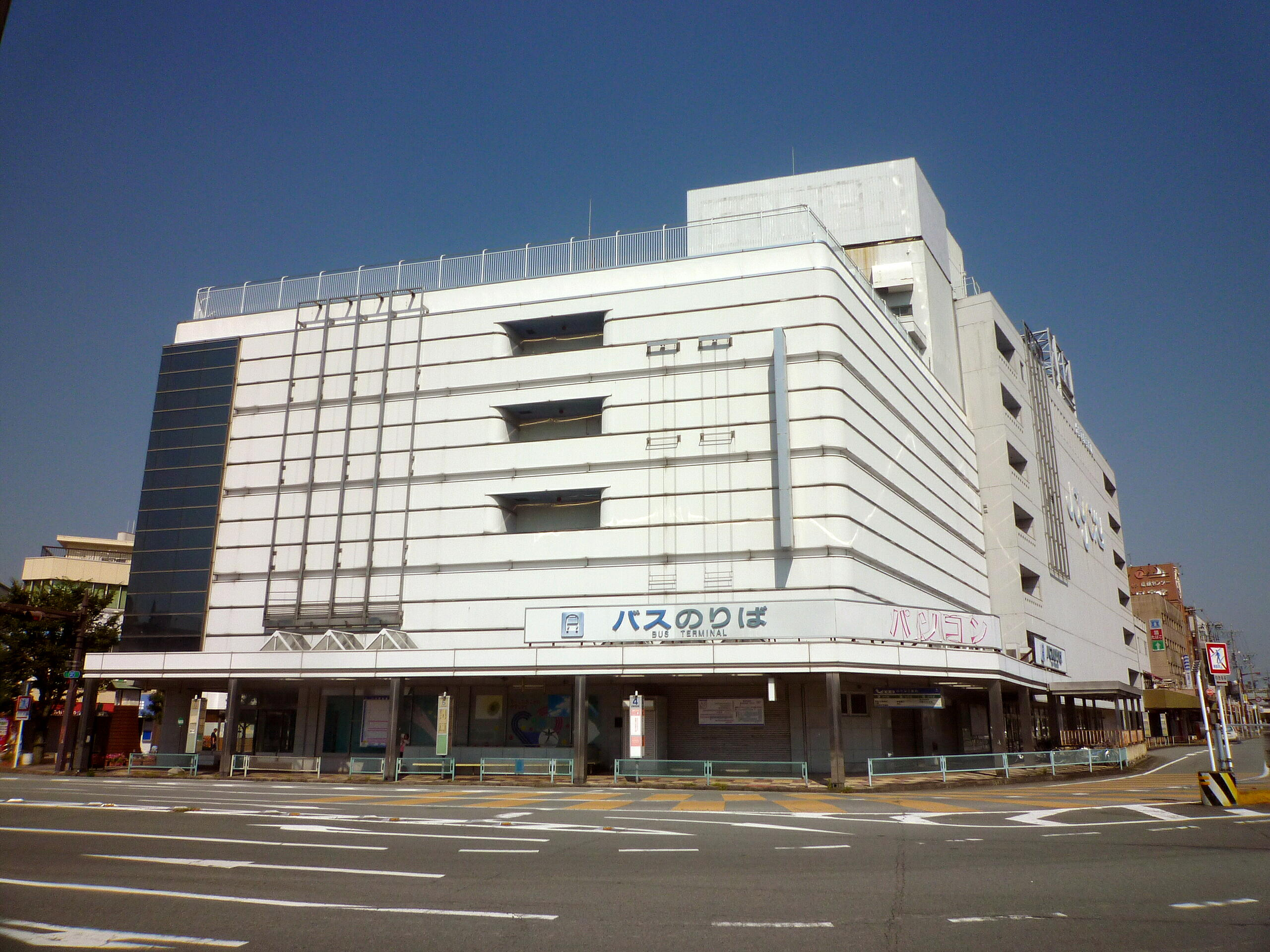 Old Sanco department store Ise branch in front of Iseshi Station.